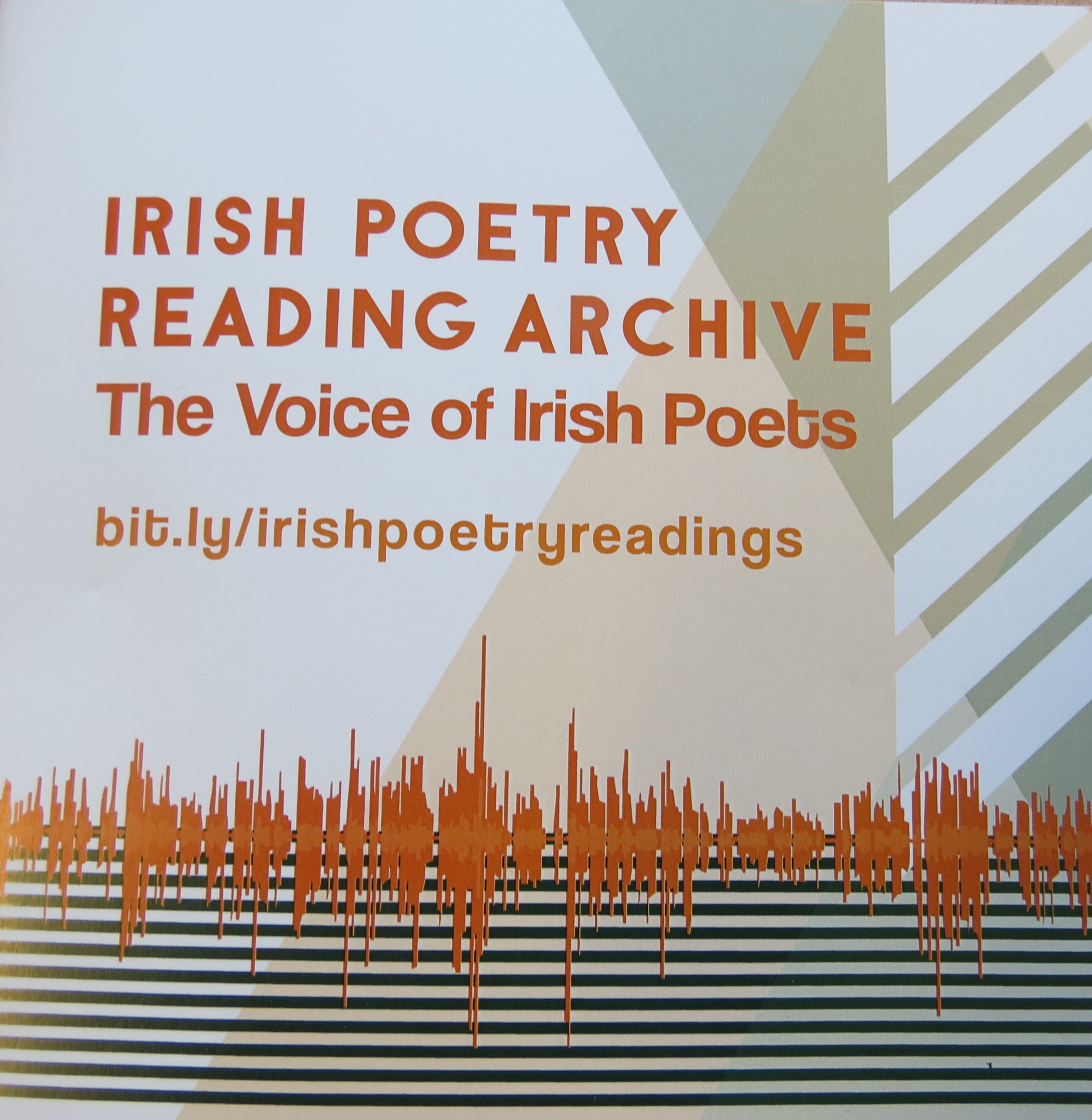 image associated with contemporary digital poetry archive